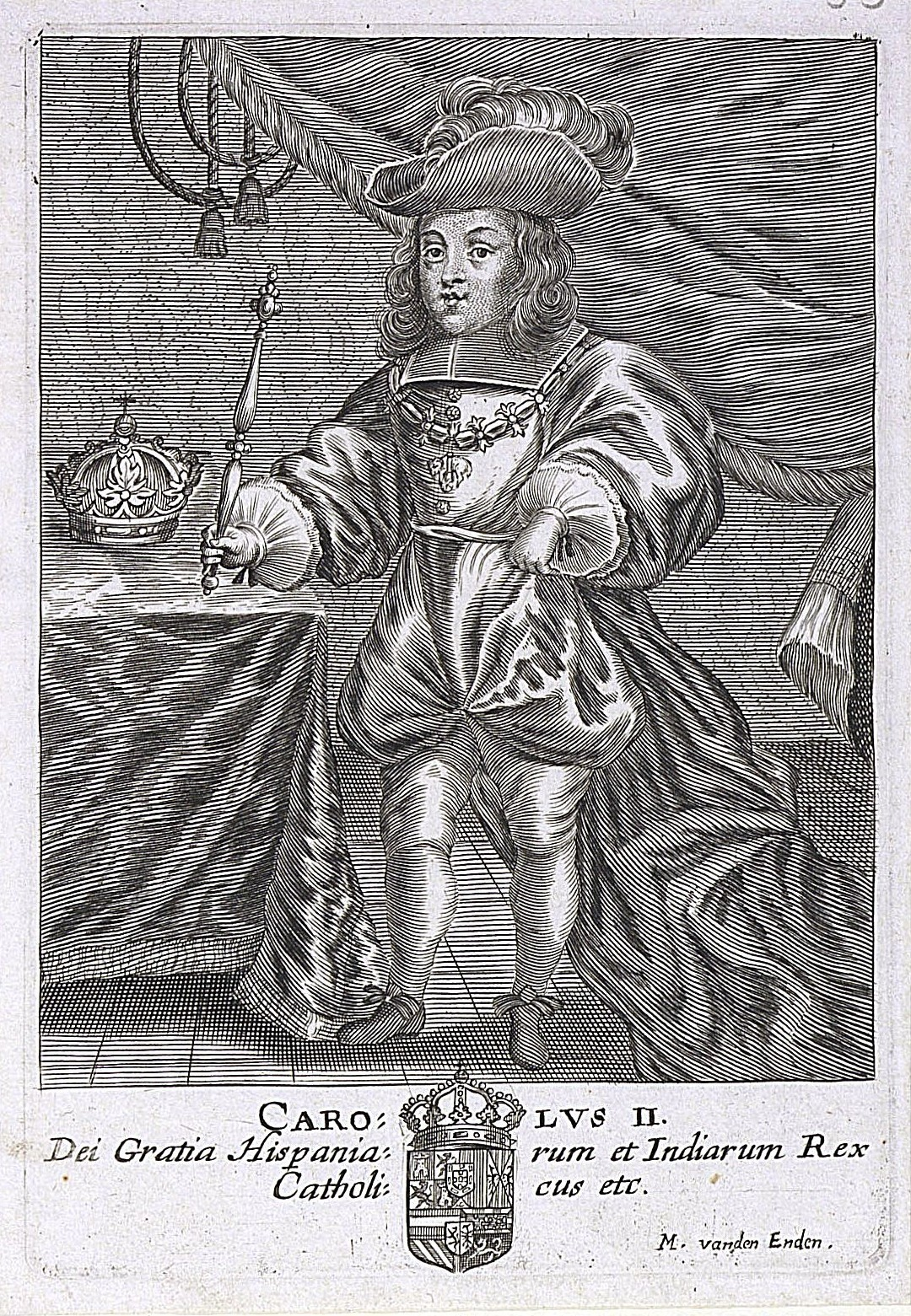 Martinus van den Enden (active1660/1) (d. 1673/4) - Carlos II, King of Spain & the Indies (1661-1700). WinBook_3_SV_1 077